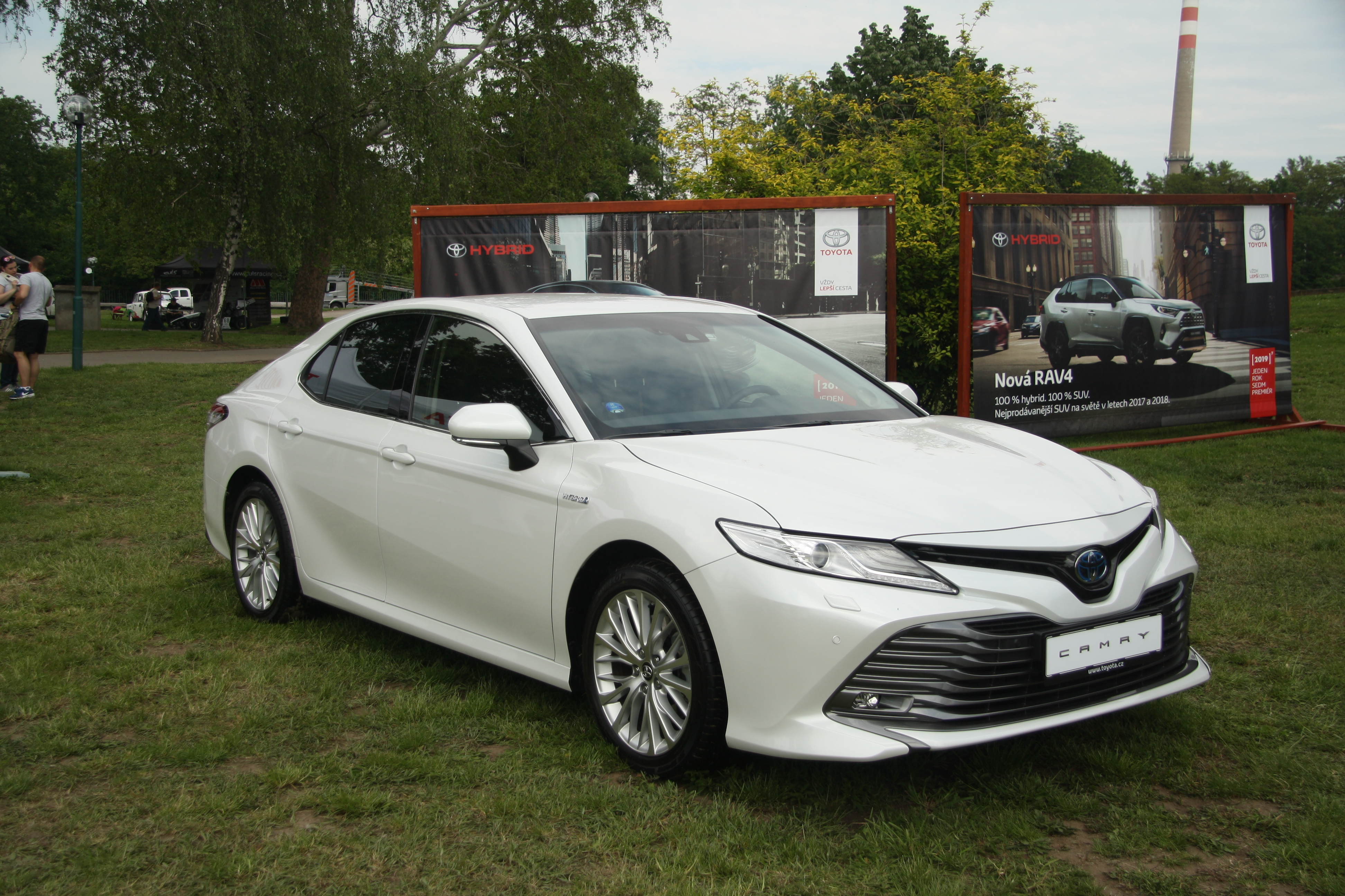 Toyota Camry 2019 at Legendy 2019 in Prague.